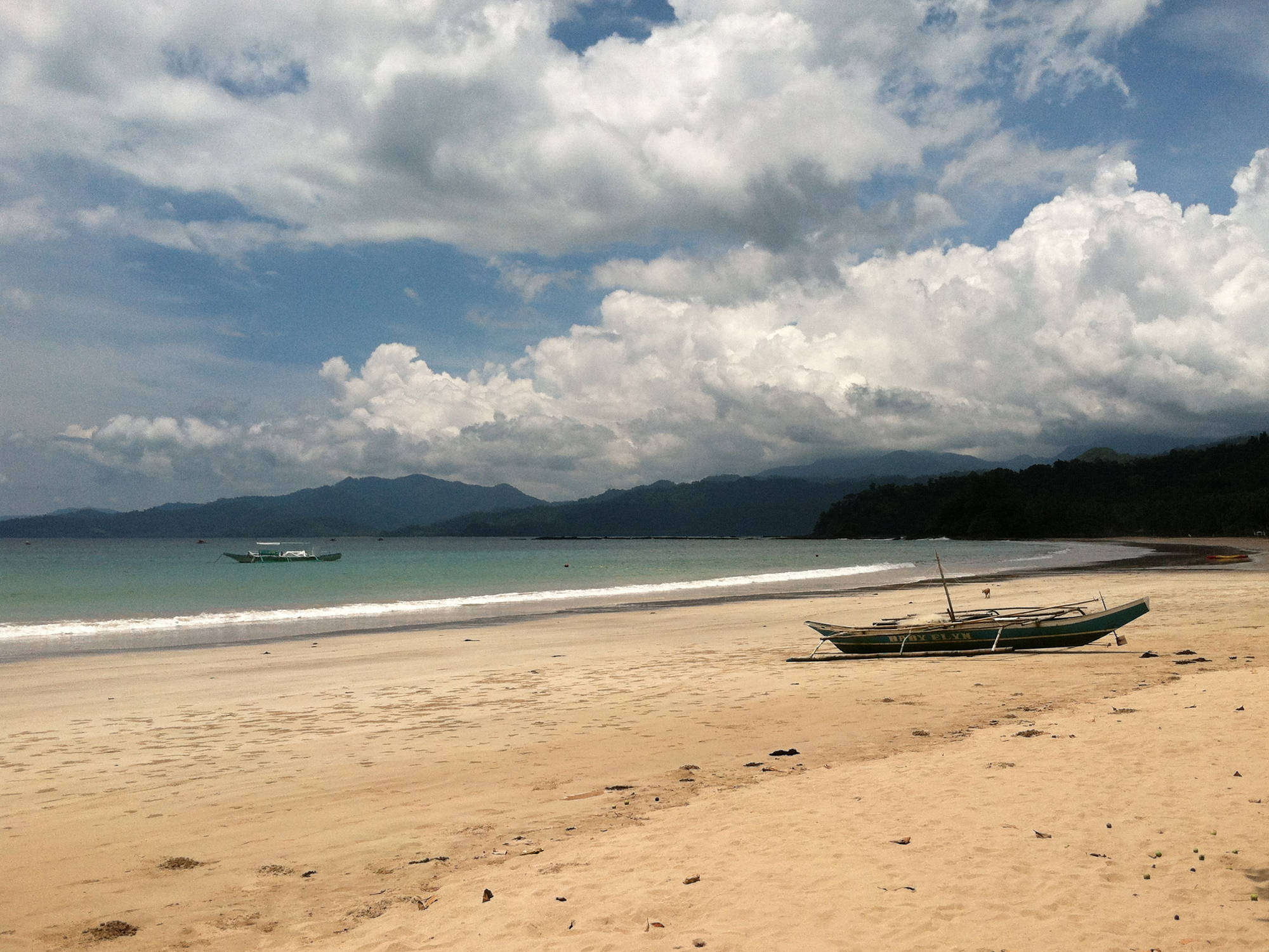 Sabang Beach in Palawan, Philippines